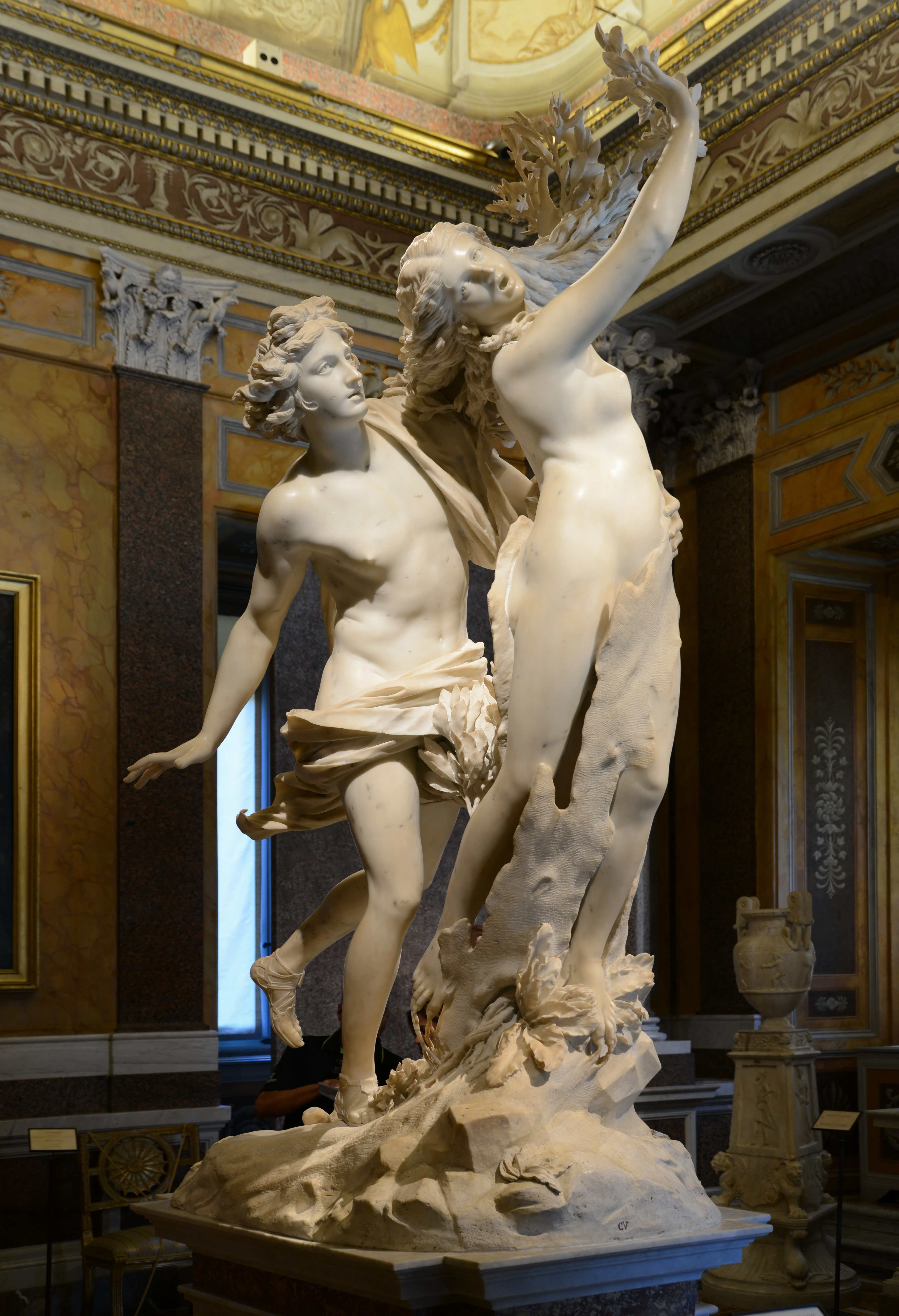 Apollo, on whom Amor takes revenge by shooting him with an golden arrow, making him fall for the nymph Daphne, a disciple of Diana. The nymph, instead, is pierced by a dart made of lowly lead, rejects the god’s love, and begs her father, Peneus, a river god, to help her change the features that have aroused such passion. The sculpture represents the moment of Daphne‘s metamorphosis into a laurel tree. Her feet have already become roots and hands and hair a single leafy branch. Therefore laurel was to become dear to the god – who would tie it around his head – and be considered an attribute of artists and poets.